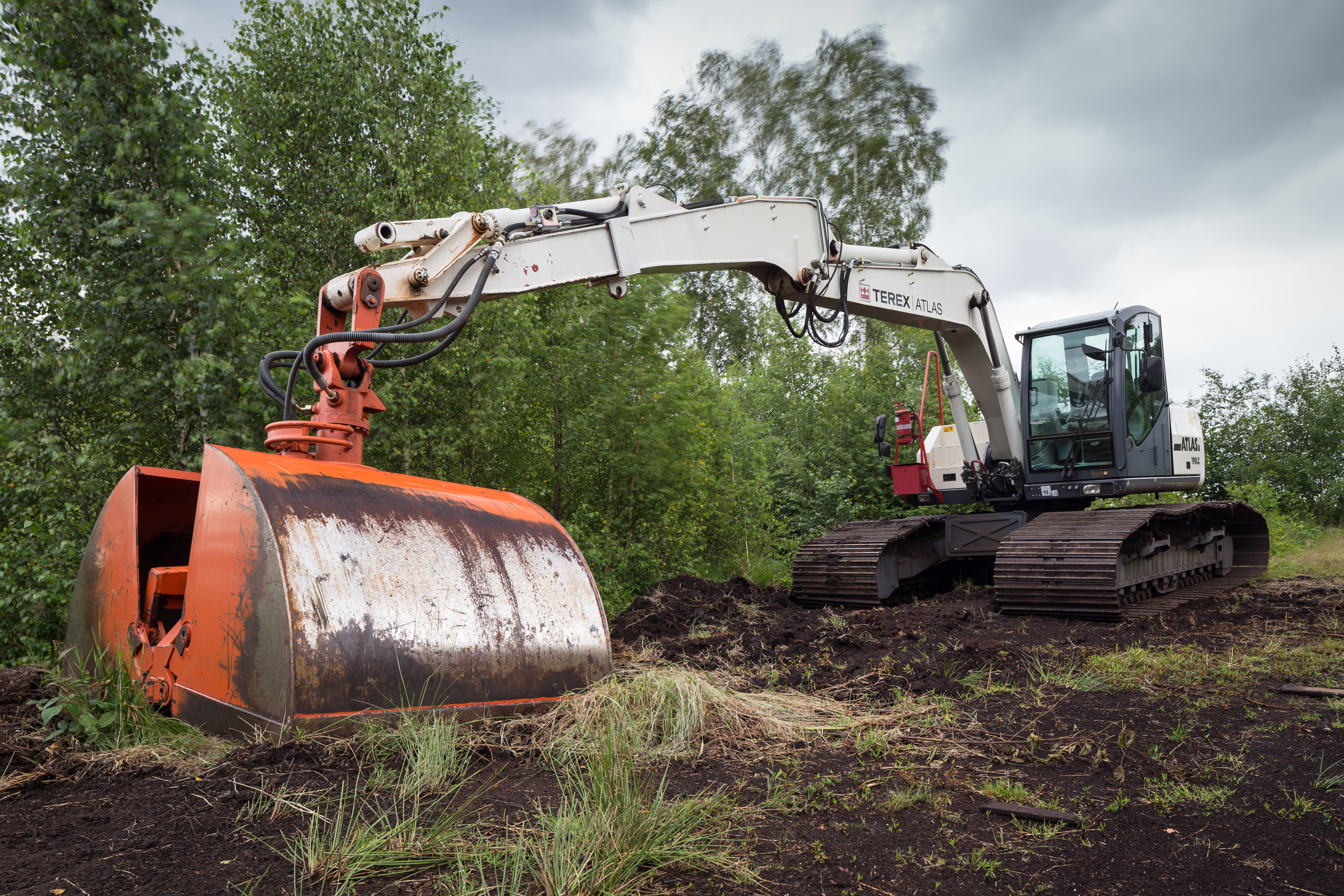 Excavator Terex-Atlas 190 LC equipped for peat exploitation.